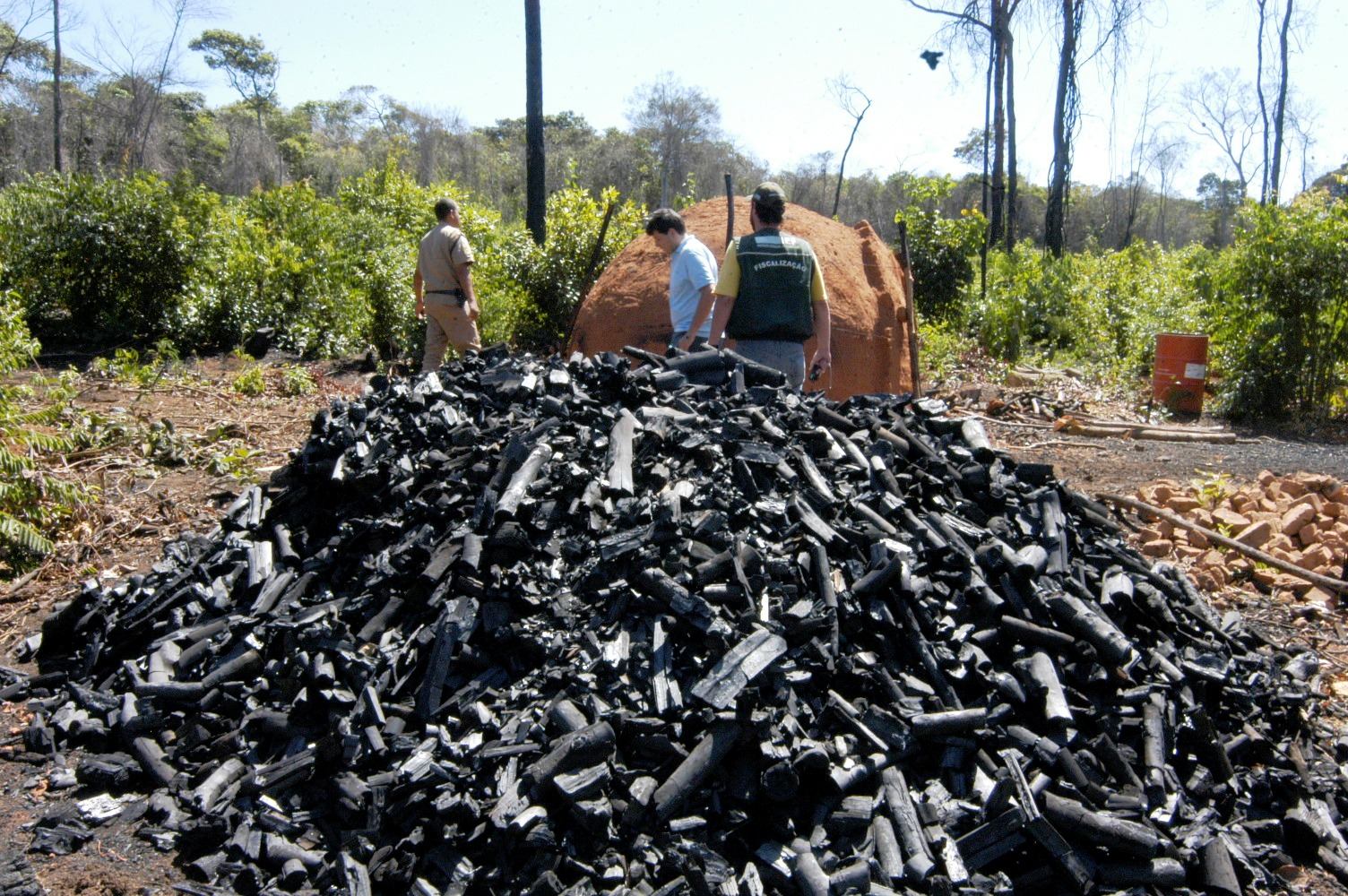 Inspectors from the Ministry of Labor and Federal Police officers at the scene of a clandestine charcoal operation, places where most illegal working situations occur.